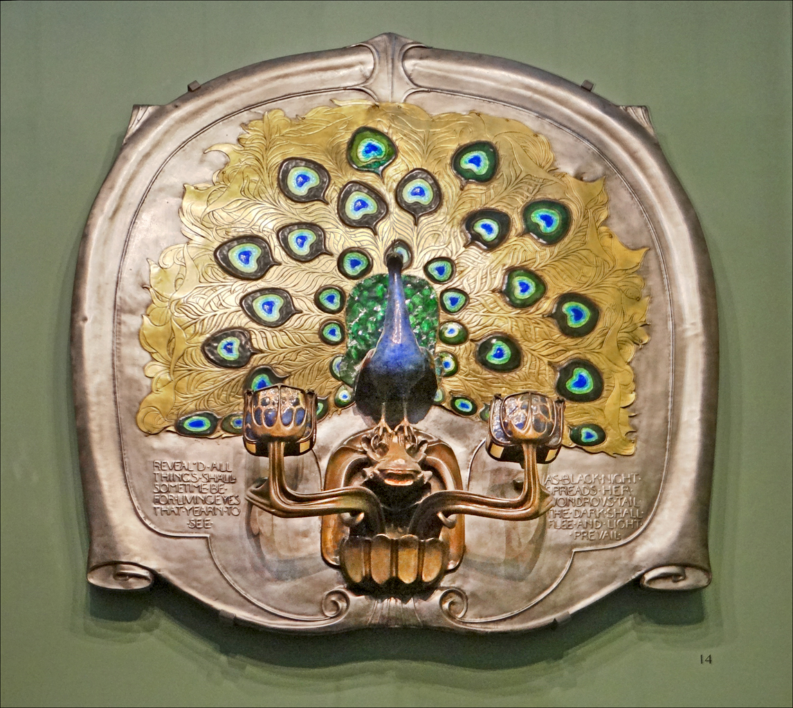 This sconce (wall light) incorporates a peacock within its design, a favourite motif in the decorative arts of the late 19th century. It was always intended to be an exhibition piece. Alexander Fisher (1864-1936) first showed this sconce, which he designed and made, at the Arts and Crafts Exhibition Society in 1899 and again at the International Exhibition of Modern Decorative Art in Turin, Italy, in 1902.